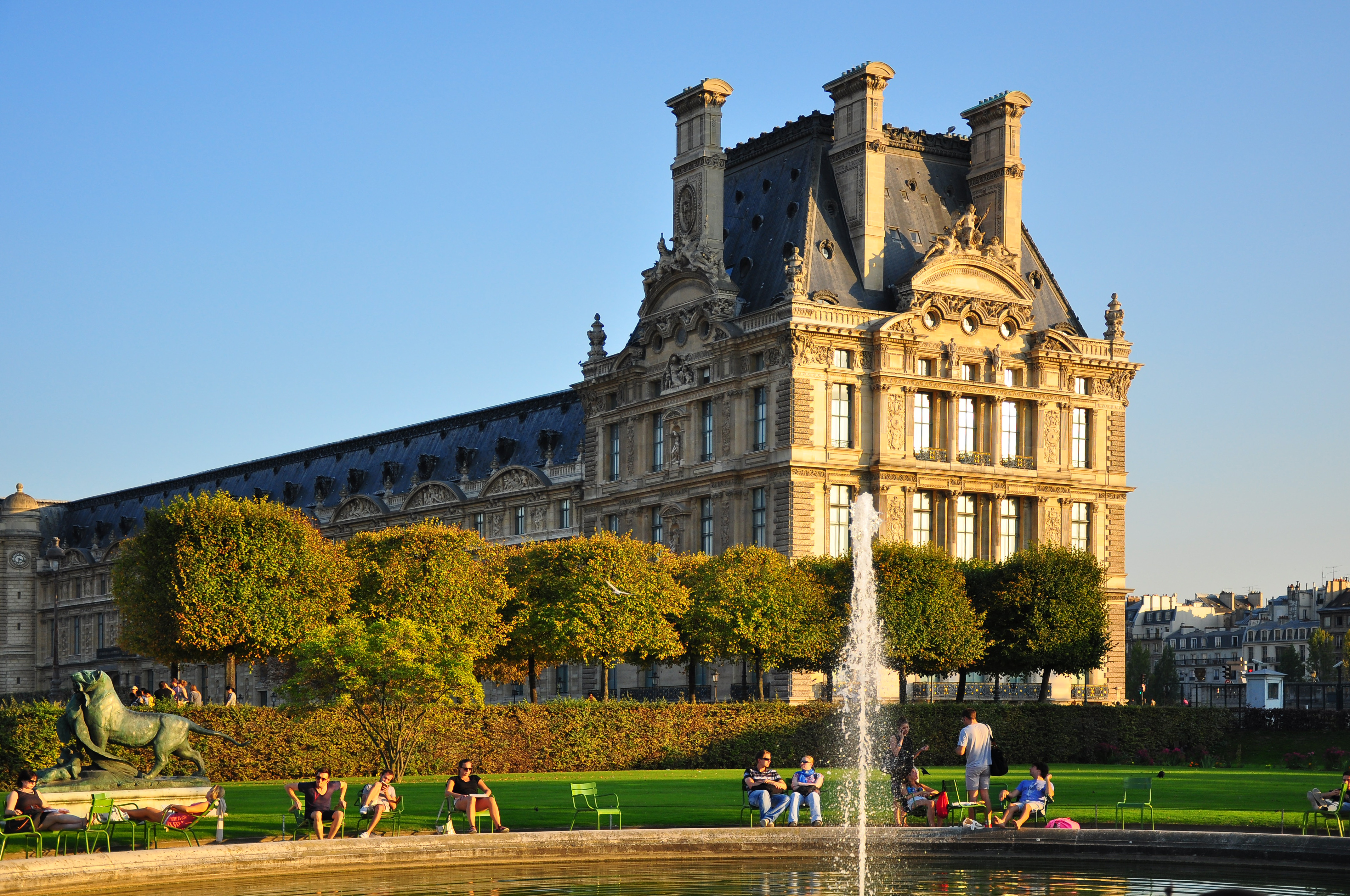 The Pavillon de Flore, Louvre Museum as seen from Tuileries Garden, Paris, France.